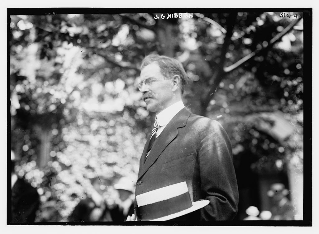 J. G. Hibben circa 1914. (Description from John Grier Hibben captioned this as "Hibben on June 13, 1914 at Princeton University Princeton Day Reunion for the class of 1879") "President Is Just 'Tommy' For A Day. Mr. Wilson Lays Aside Cares and Dignities for Reunion with His Class of '79. President Woodrow Wilson for eleven happy hours to-day was just "Tommy" Wilson, '79. ... Princeton and its class of '79, which Is having an annual reunion, ... President John Grier Hibben who succeeded Woodrow Wilson ... came over to greet the President." Bain News Service, publisher. J.G. Hibben [between ca. 1910 and ca. 1915] 1 negative : glass ; 5 x 7 in. or smaller. Notes: Title from unverified data provided by the Bain News Service on the negatives or caption cards. Forms part of: George Grantham Bain Collection (Library of Congress). Format: Glass negatives. Repository: Library of Congress, Prints and Photographs Division, Washington, D.C. 20540 USA, General information about the Bain Collection is available at Persistent URL: Call Number: LC-B2- 3101-4